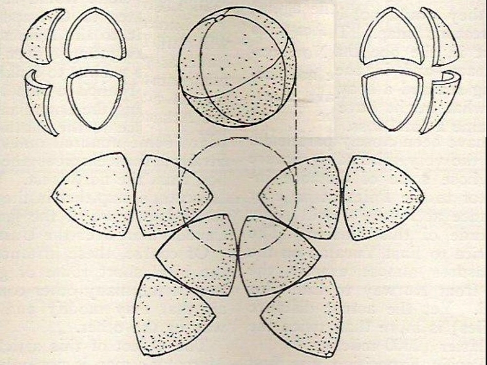 Cahill-butterfly projection of 1915 evolution of Da Vinci's Octant Projection